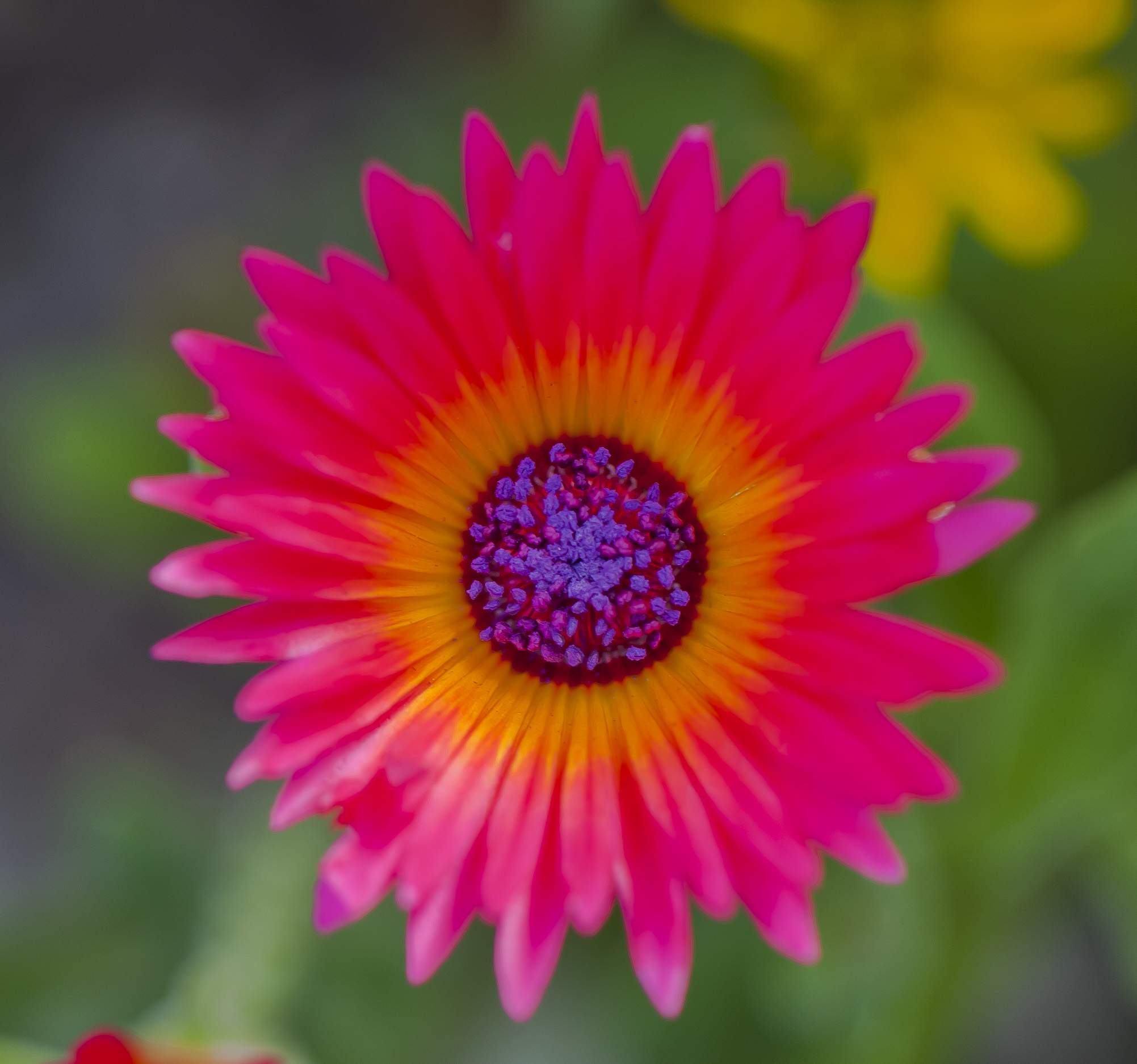 Dorotheanthus bellidiformis, center of Tallinn, Estonia